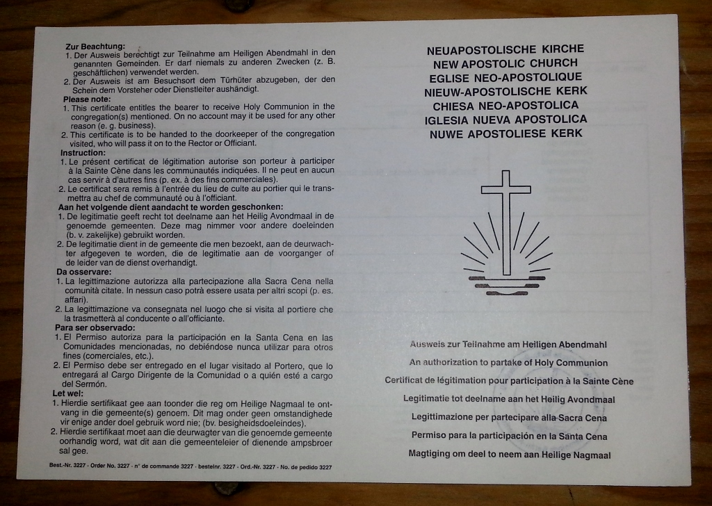 Authorization Certificate for Holy Communion New Apostolic Church NAC